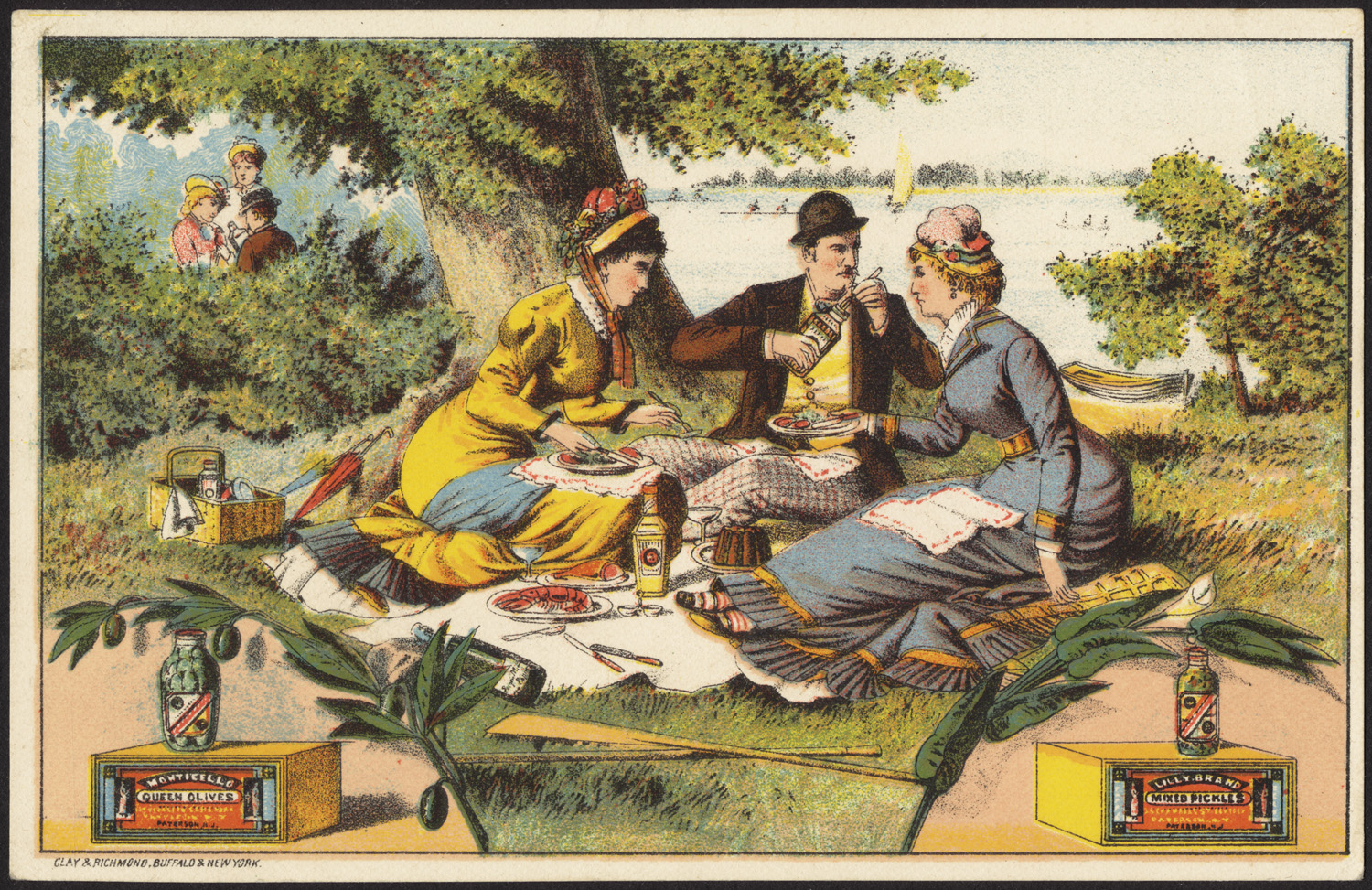 A late 19th century advertisement for Lilly Brand mixed pickles